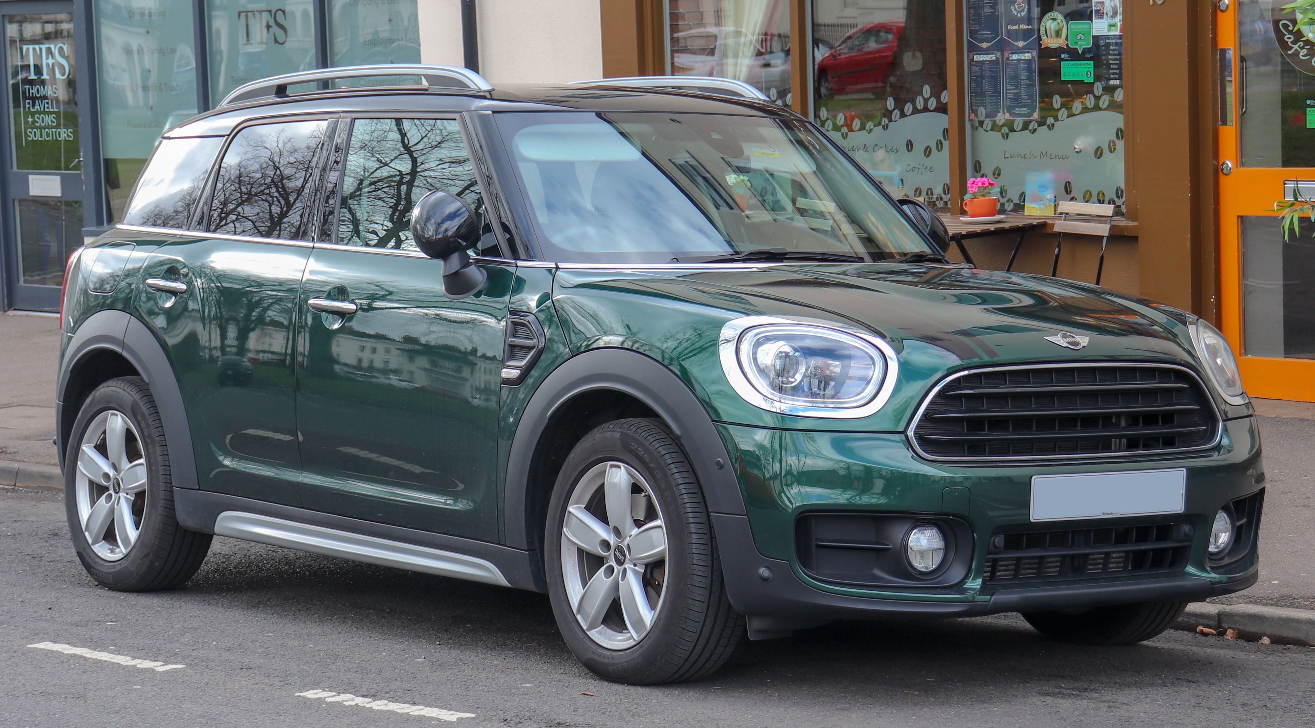 2018 Mini Countryman Cooper Automatic 1.5 Front Taken in Leamington Spa